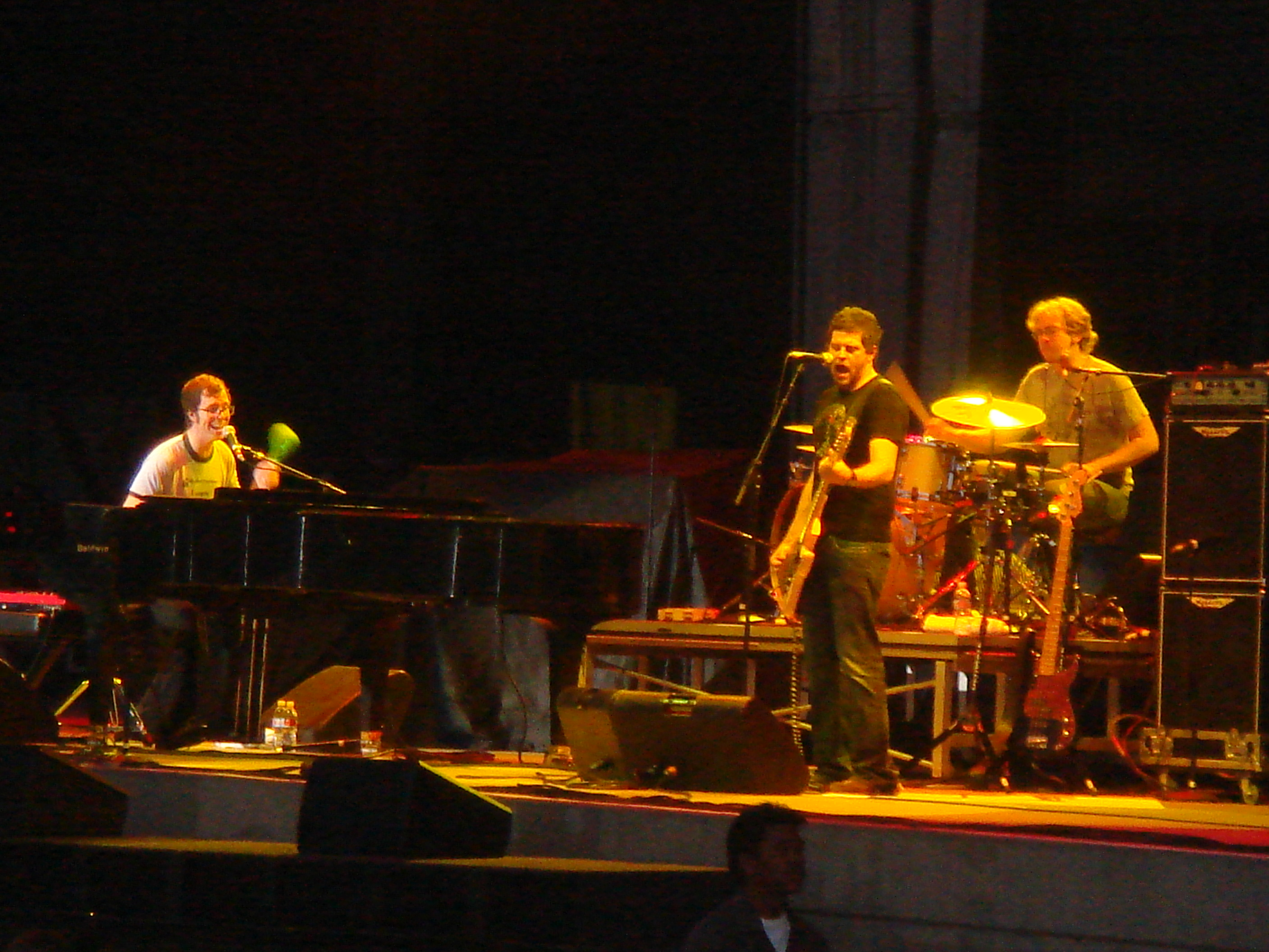 Ben Folds Five performing at San Ysidro, California on June 15, 2007.